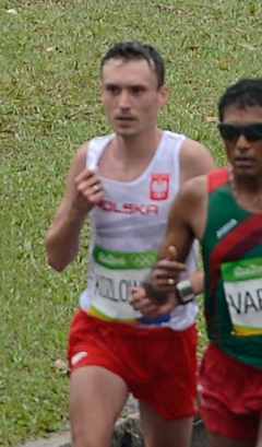 Rio de Janeiro - Sob chuva forte atletas da maratona masculina passam pelo aterro do Flamengo (Tânia Rêgo/Agência Brasil)